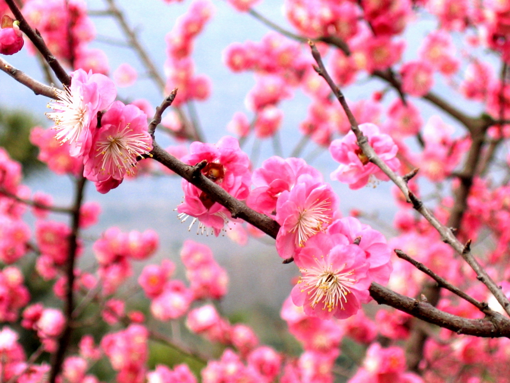 Plum blossoms in Nanjing, China.